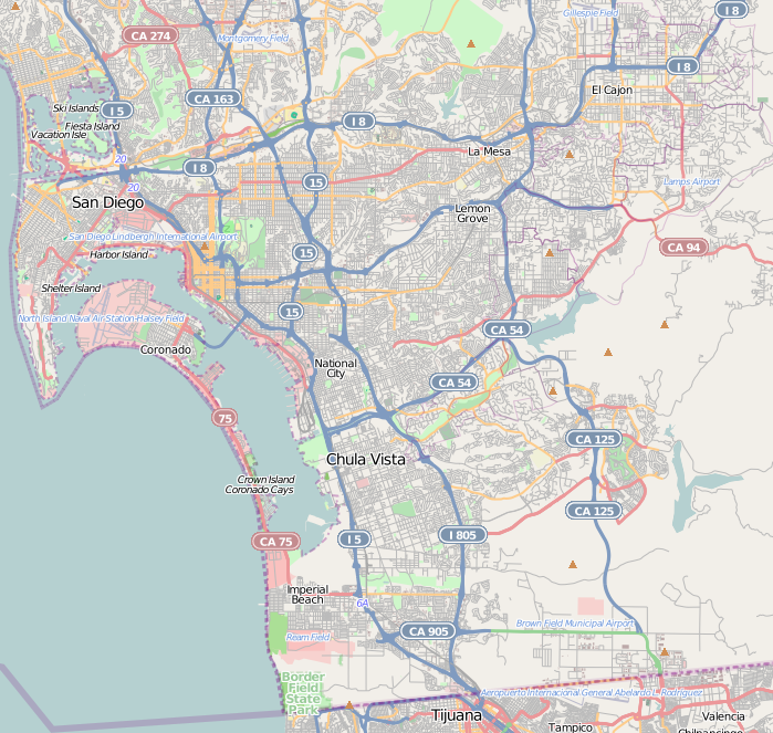 This map of Southern San Diego was created from OpenStreetMap project data, collected by the community. This map may be incomplete, and may contain errors. Don't rely solely on it for navigation.